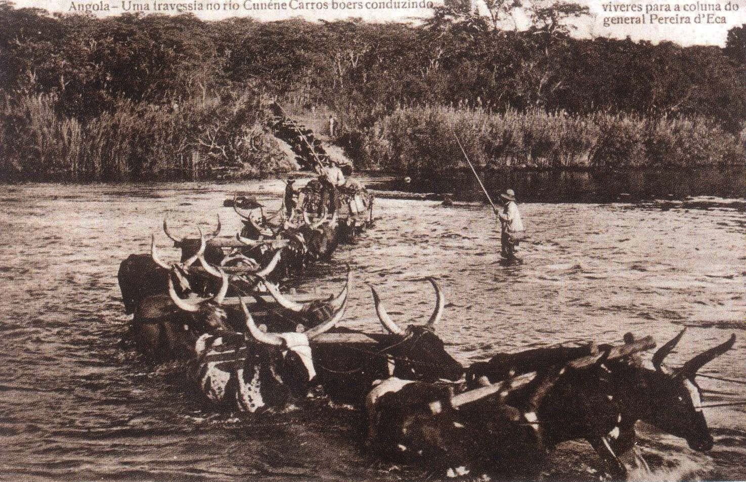 Boer transport wagons with supplies for General Pereira de Eça crossing the Kunene during the 1915 campaign.